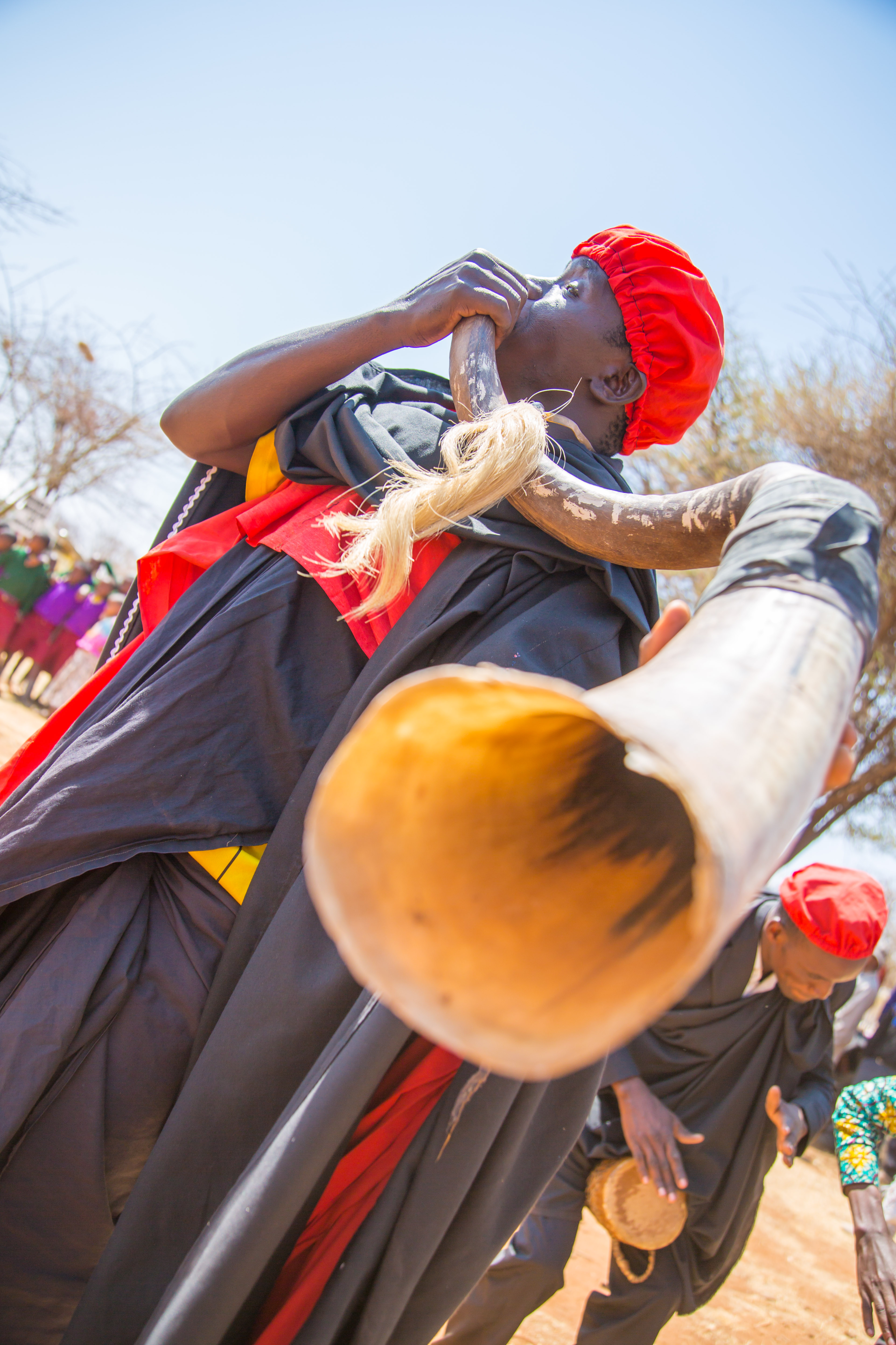 This is an image from Tanzania